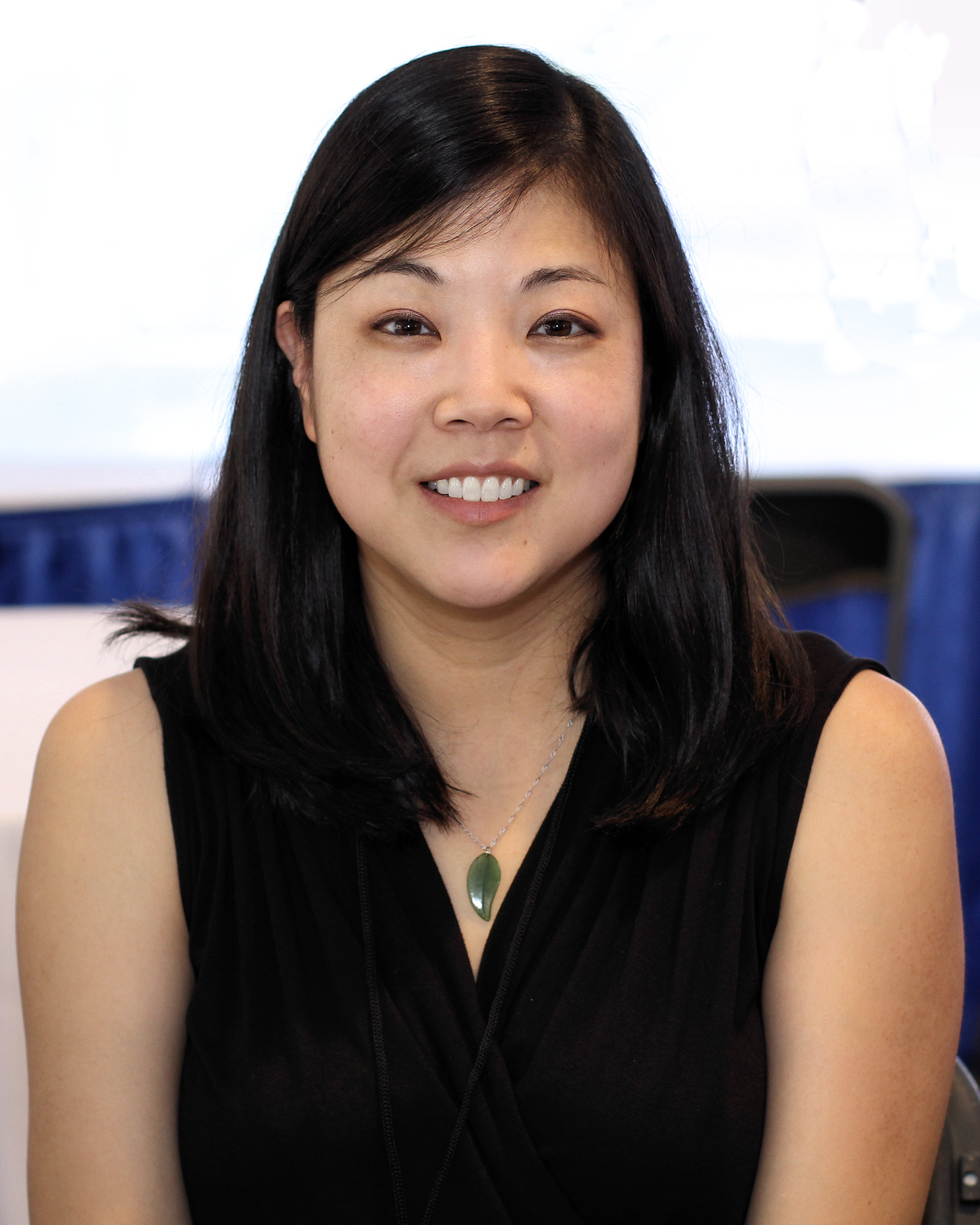 Author Nicole Chung at the 2018 Texas Book Festival in Austin, Texas, United States.